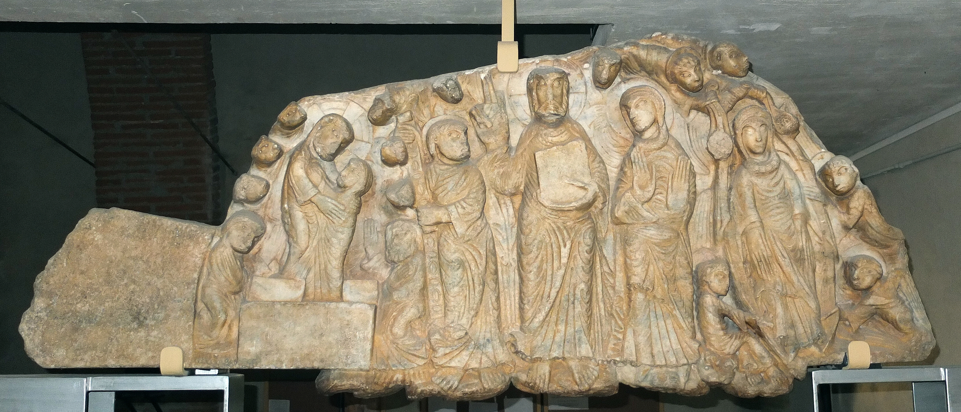 Romanesque tympanon (12th century) by the Master of Cabestany in the Église Notre-Dame-des-Anges de Cabestany, France